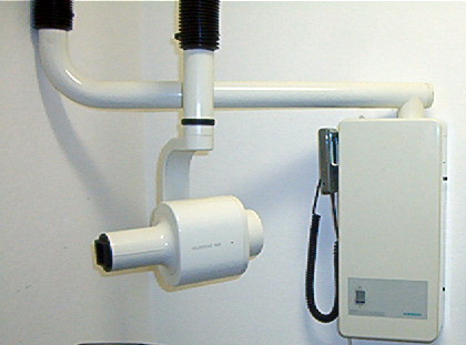 Dental X-ray unit